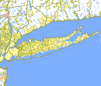 US Government Census map of Long Island.